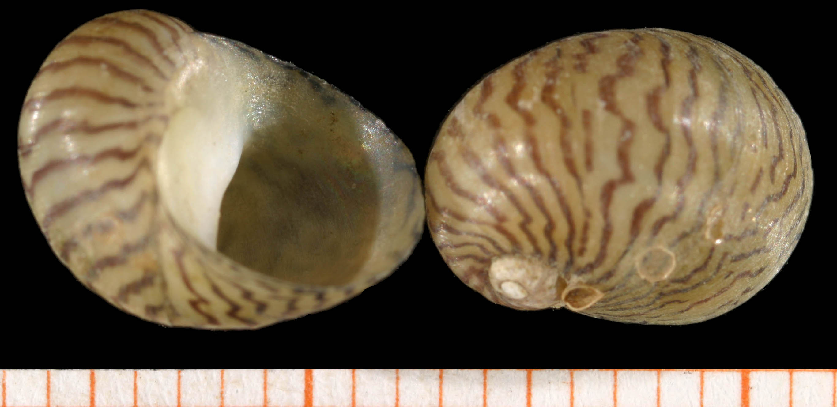 Photo of Theodoxus danubialis. Scale in mm. Locality: Germany: W of Kelheim. Date: 1997.